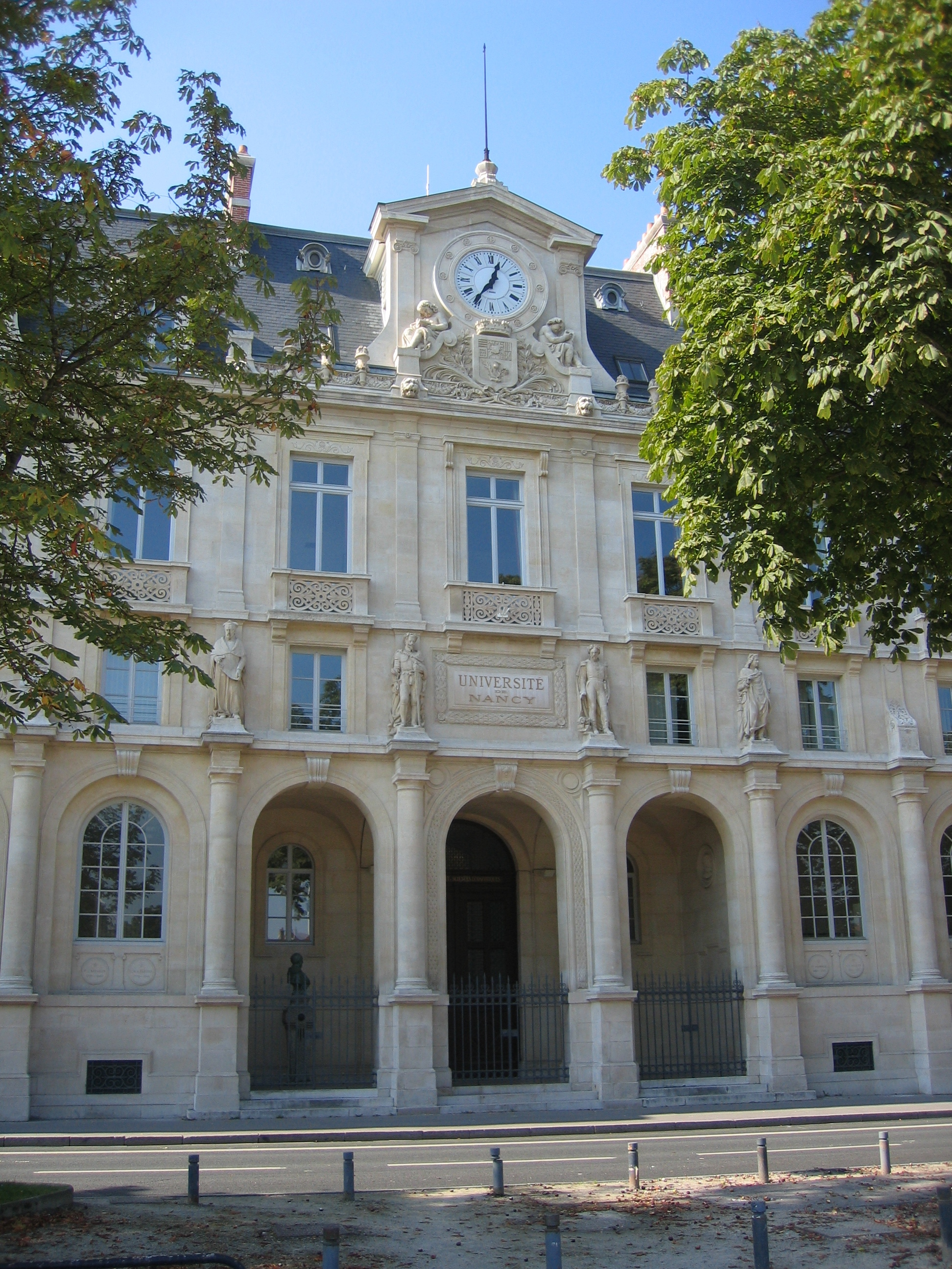 University Hall, Nancy II University, place Carnot (former place de l'Académie), entrance side of the Faculty of Law.